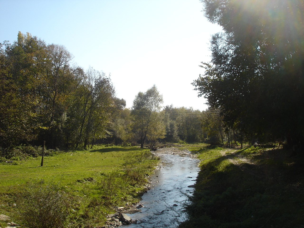 Radibuš River in Rankovce Municipality, Kriva Palanka region, Macedonia